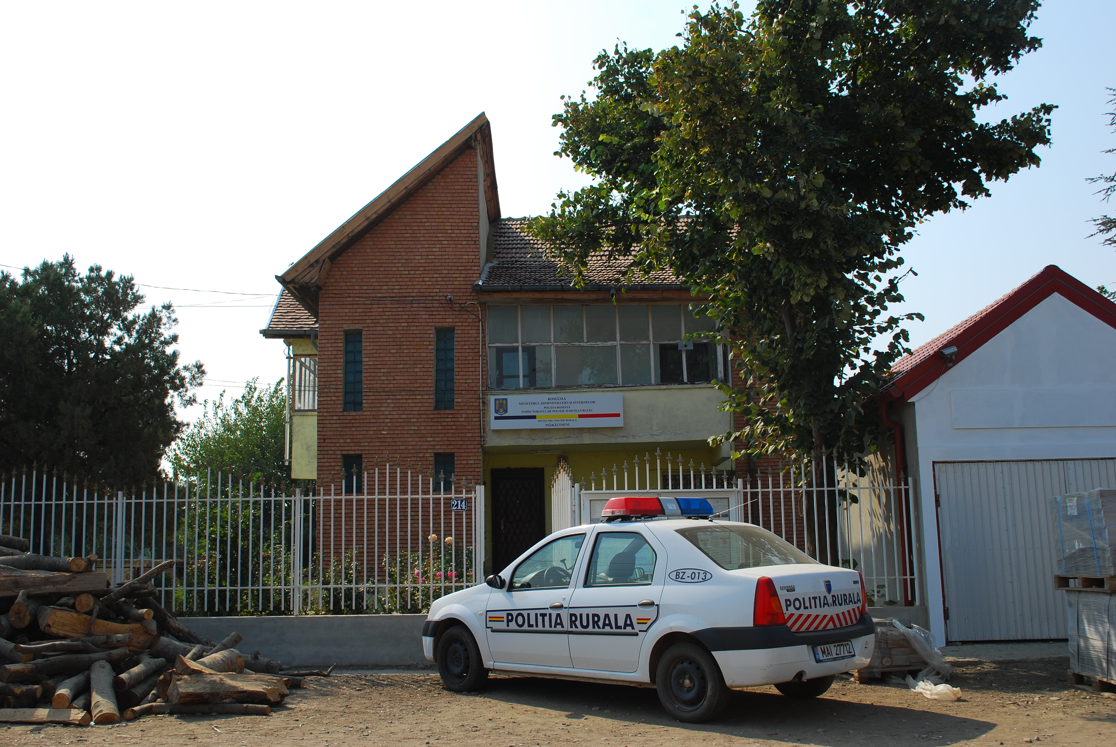 Albanopol mansion in Mărăcineni, Buzău County, RomaniaRomână: Conacul Albanopol din Mărăcineni, judeţul Buzău, România